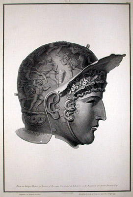 From an Antique Helmet of Bronze, of the same Size, found at Ribchester, in the Possession of Charles Townley Society of Antiquaries of London, London: April 23, 1799. 21.5 x 14.25 inches